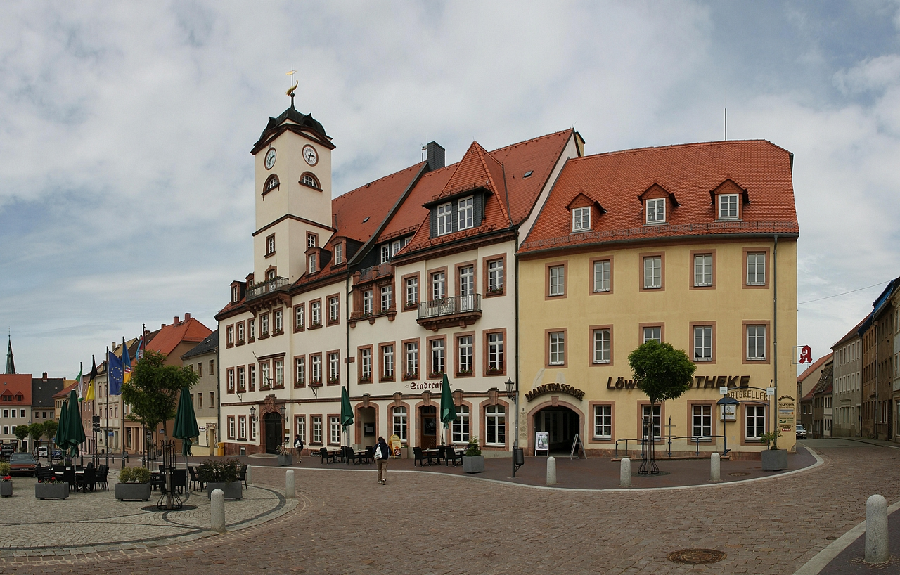 Leisnig, townhall.